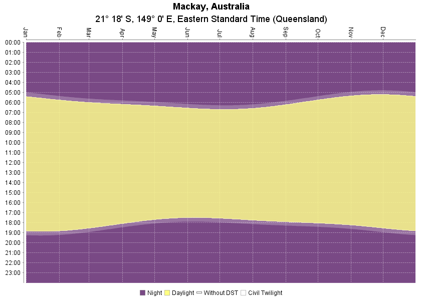 Sun Times in Mackay, Australia.